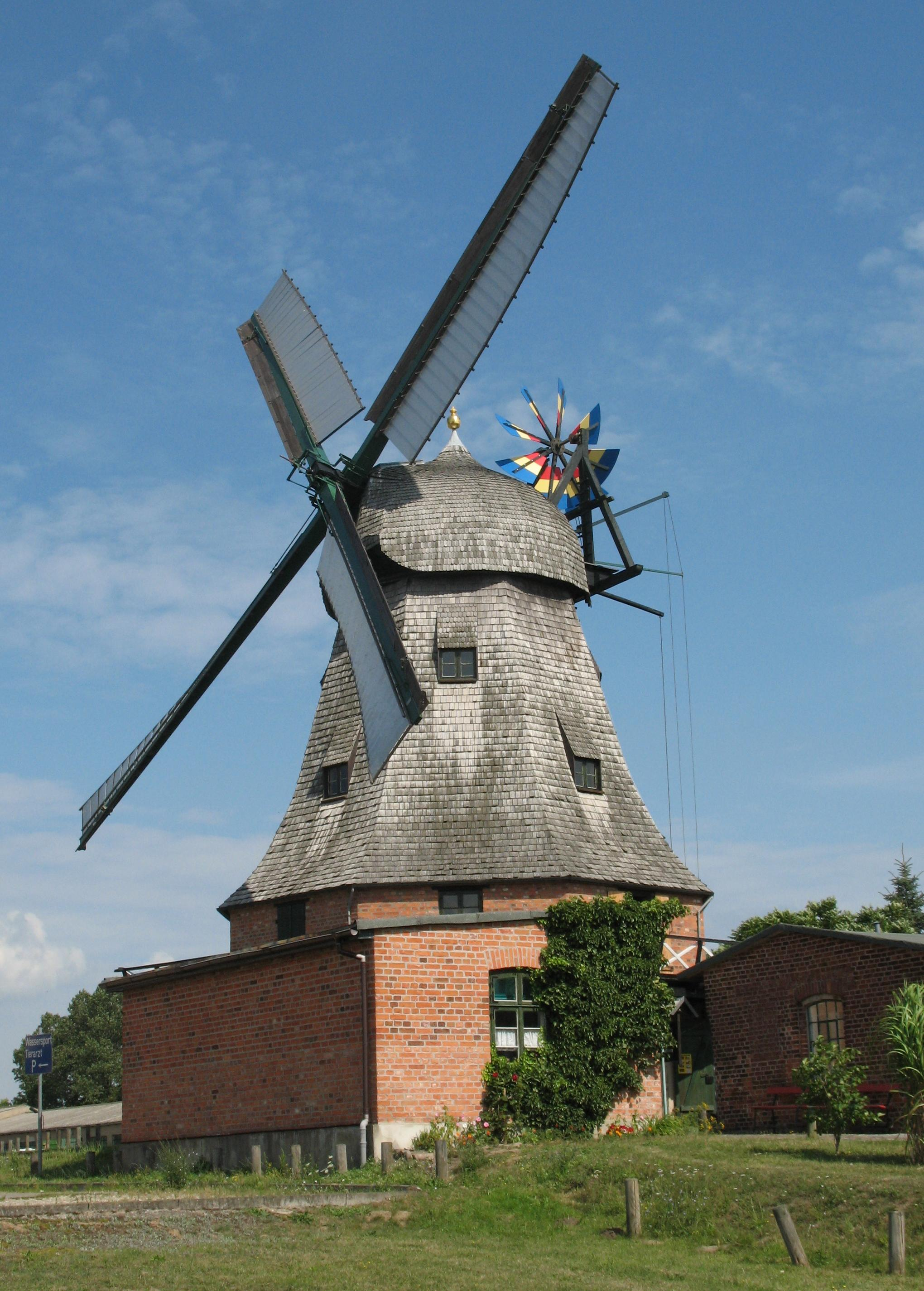 Windmill in Malchow in Mecklenburg-Western Pomerania, Germany